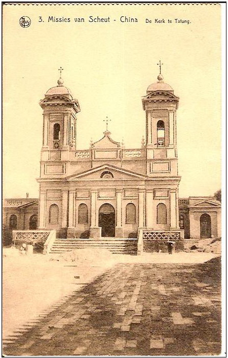 Church of the Immaculate Heart of Mary, Datong